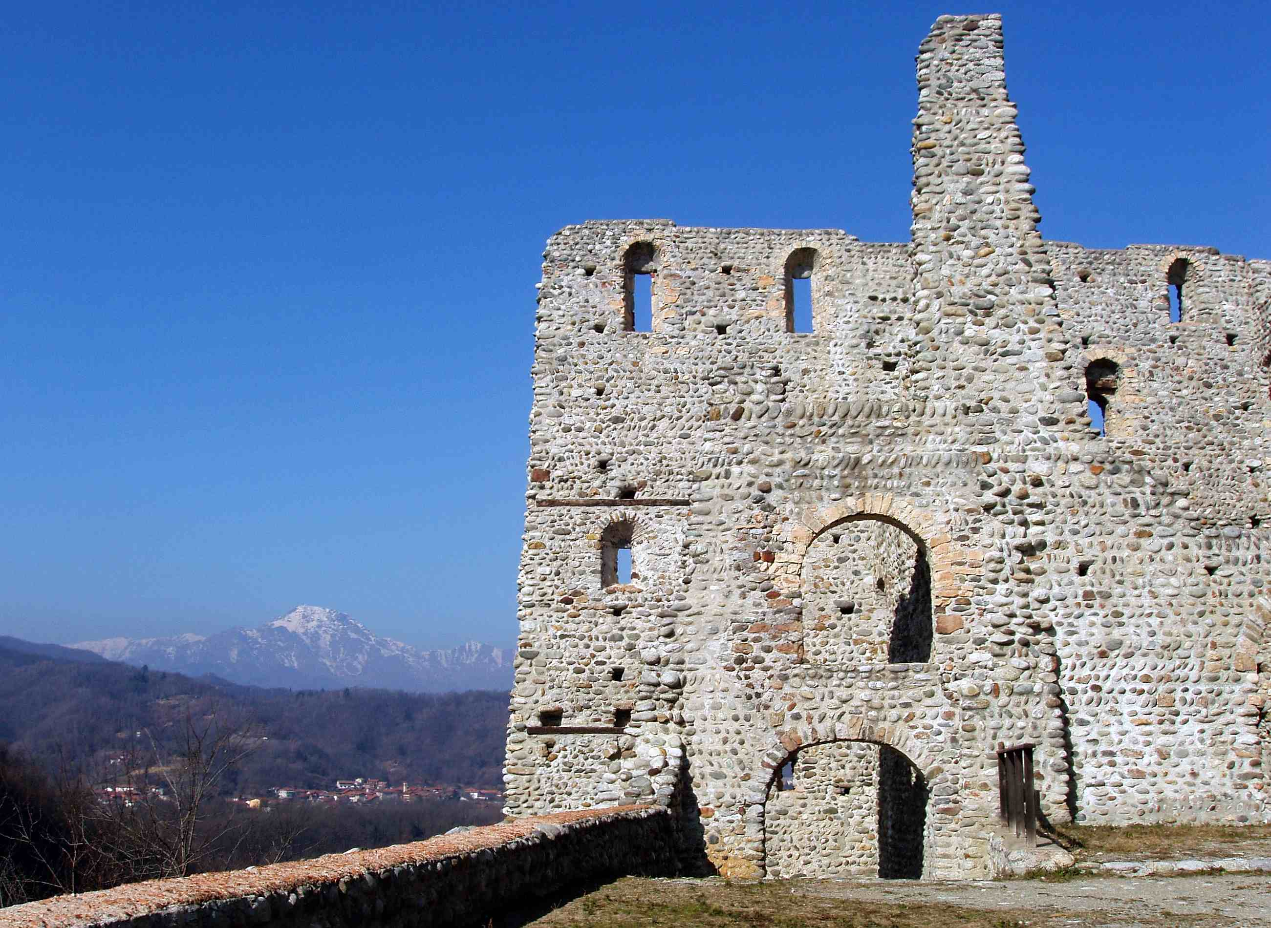 Vintebbio (Serravalle Sesia, VC, Italy): the old castle; in the background on the left the monte Barone